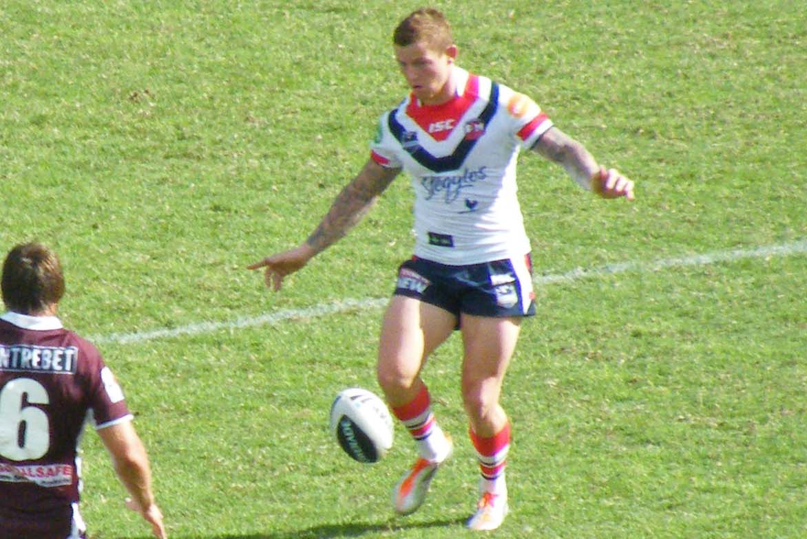 Todd Carney, rugby league player